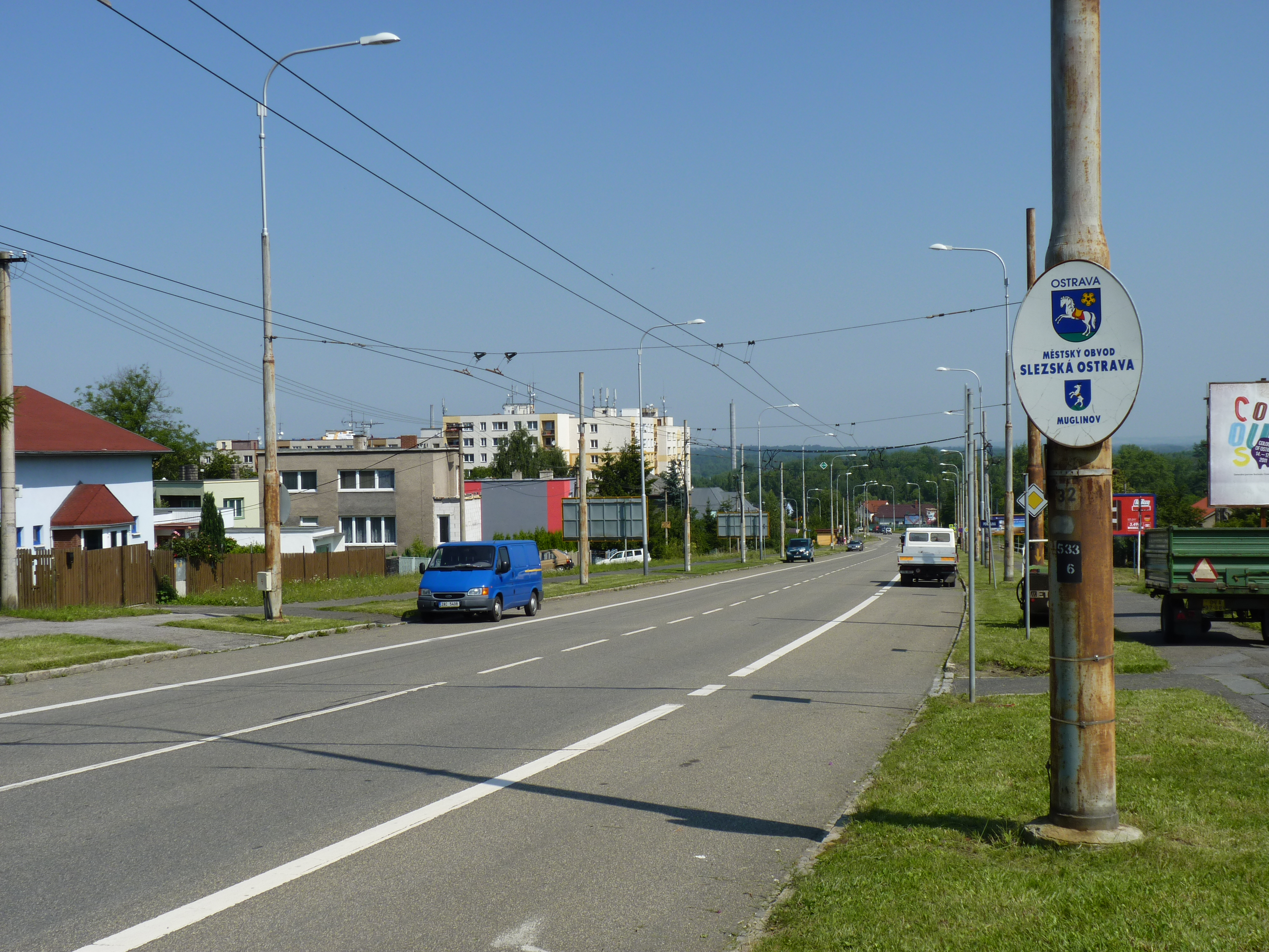 Muglinov (Slezská Ostrava). Ostrava-city District, Moravian-Silesian Region, Czech Republic